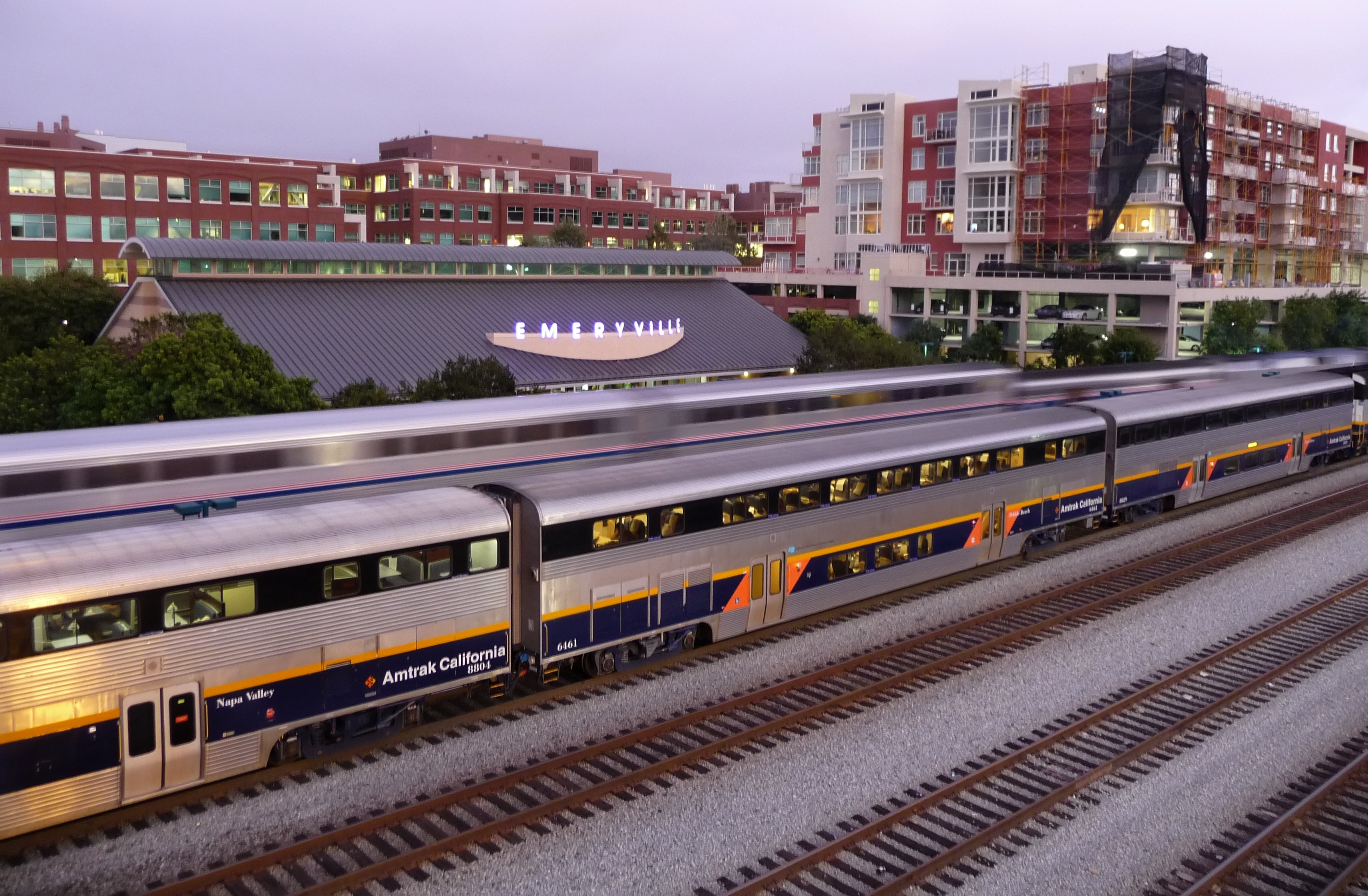 An overview of the Emeryville Amtrak Station.